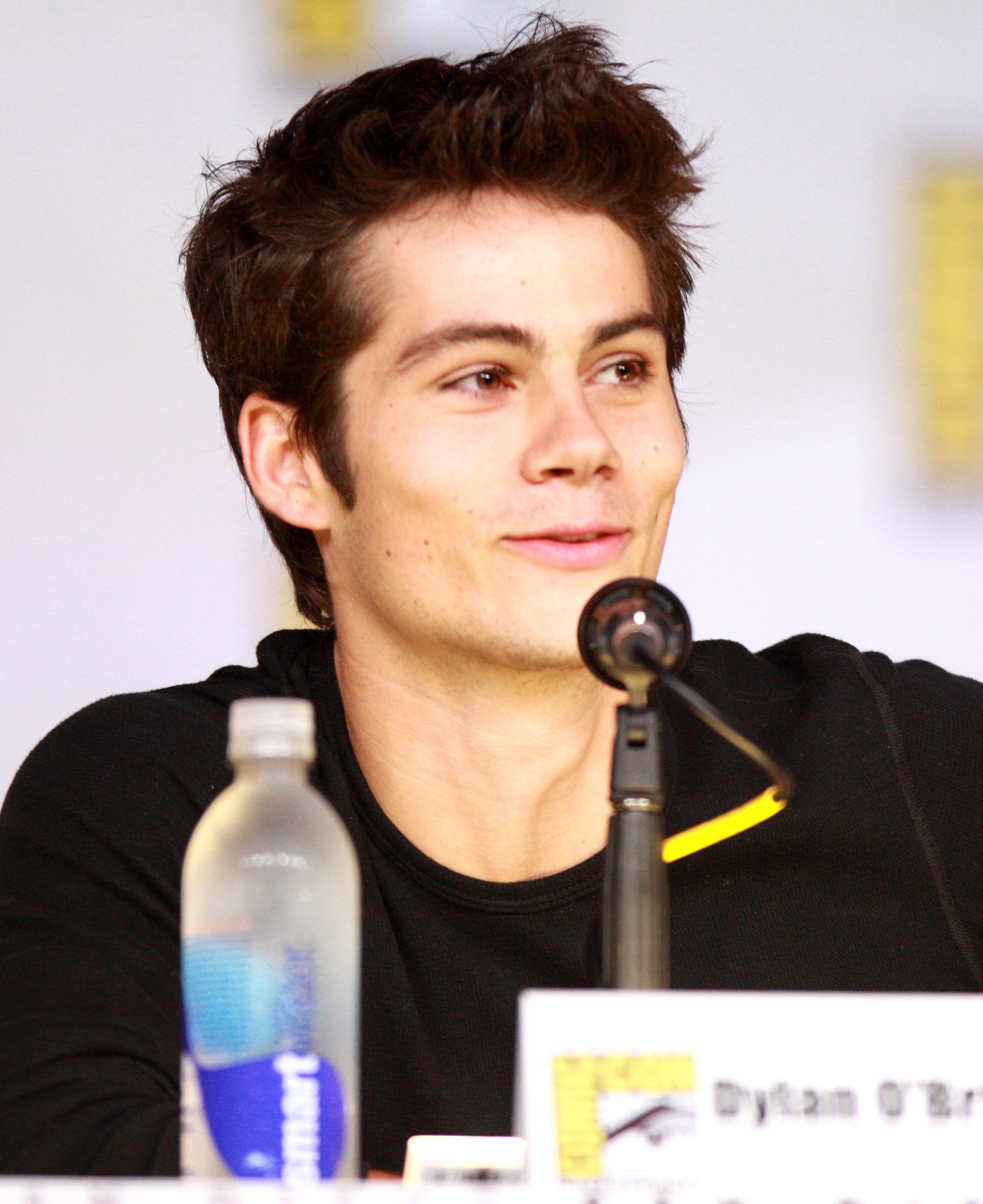 Dylan O'Brien at the 2013 San Diego Comic Con International in San Diego, California.